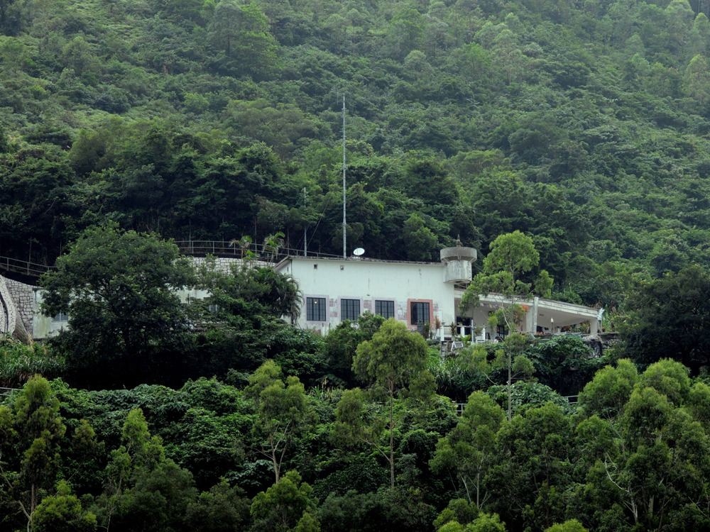 Former Rennie's Mill Police Station